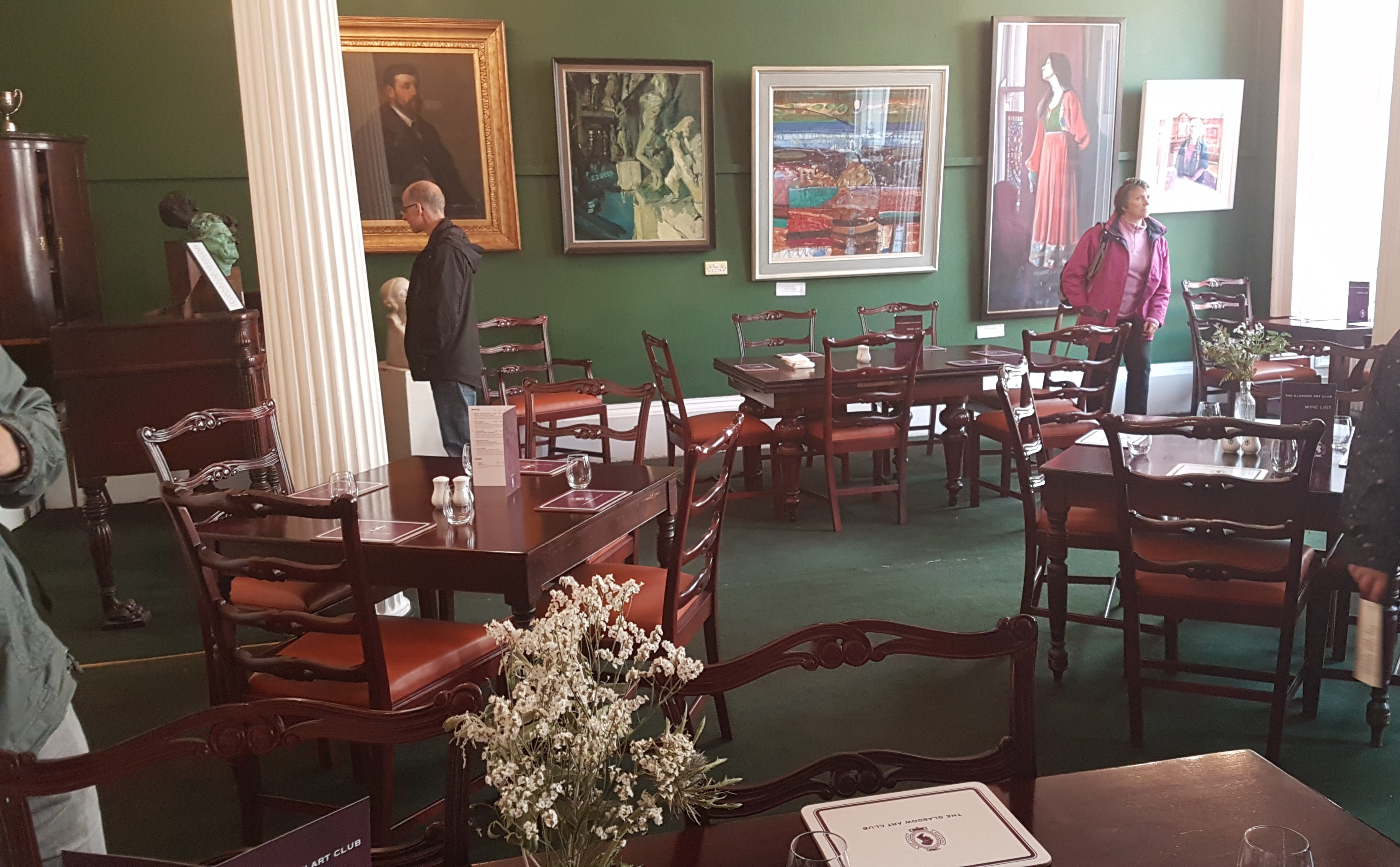 The Glasgow Art Club, 185 Bath Street, Glasgow. Founded in 1867 by William Dennistoun. Professional artists started joining in 1870s and exhibitions were held. It moved to 185 Bath Street premises in 1893. Wikidata has entry Q17568115 with data related to this item.